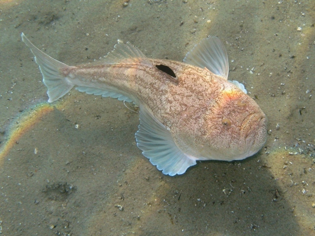 Uranoscopus scaber photographed in Rab, Croatia.